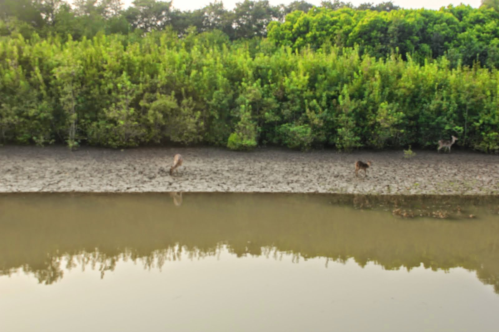 Bhitarkanika Mangrove Flora and Fauna